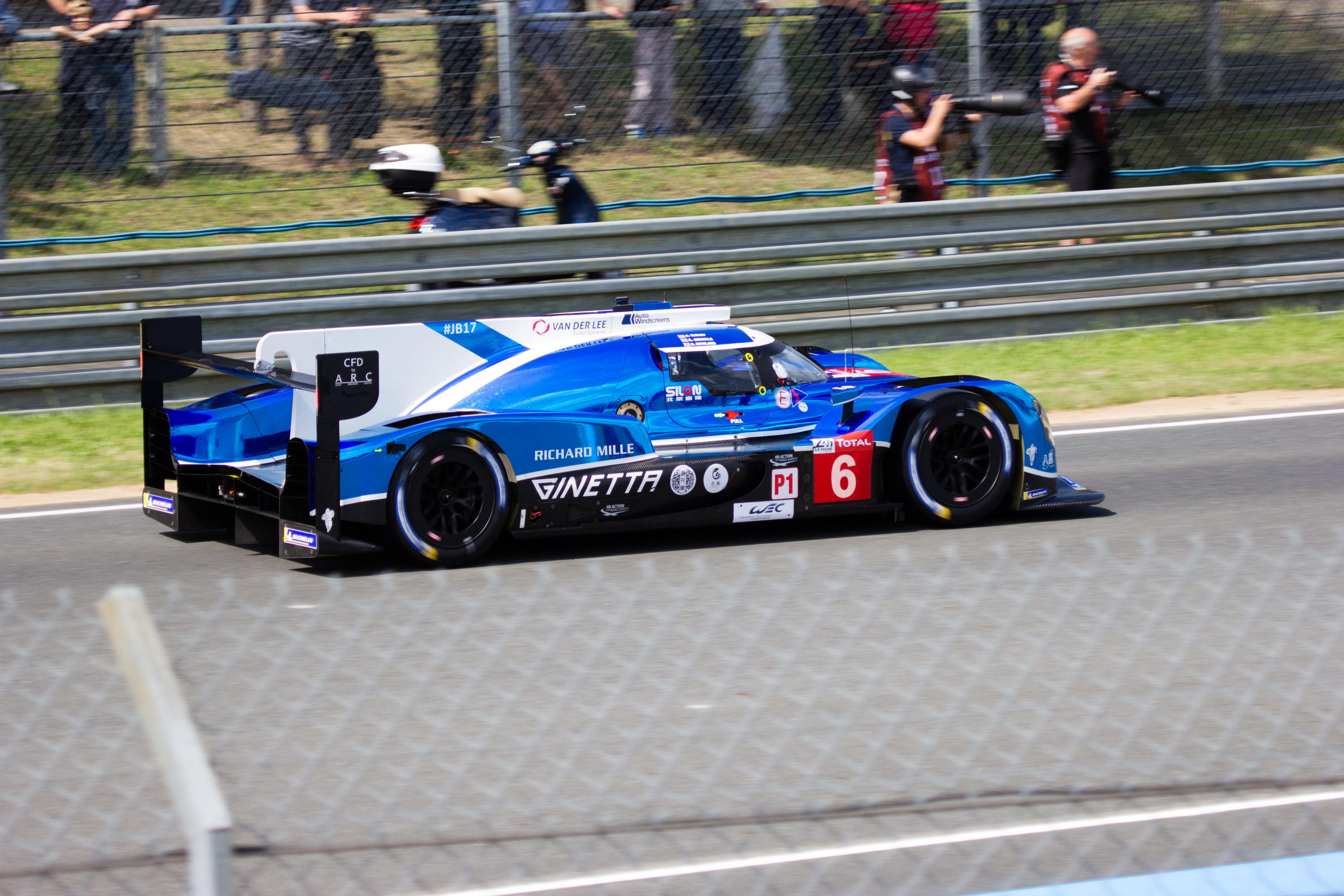 CEFC TRSM Racing - Ginetta G60-LT-P1 - Mecachrome #6 Olivier Rowland - Alex Brundle - Oliver Turvey